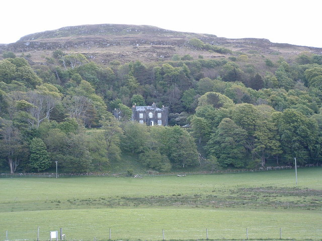 Calgary House. This house looks directly towards the bay seen in the other pictures, not a bad view to get up to in the morning.